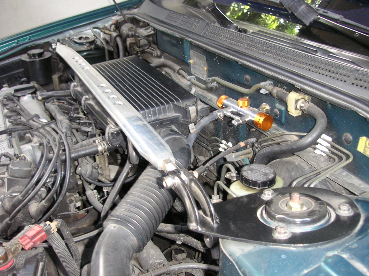 Strut bar on a 1996 Nissan Sentra.